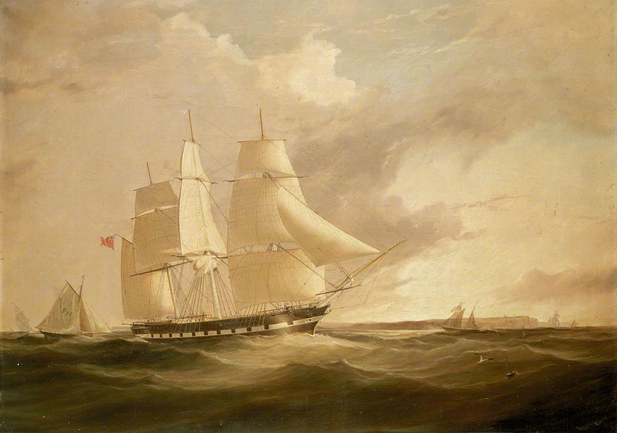 Ship Sir George Seymour ailing down the Channel with other shipping with the coast in the background.